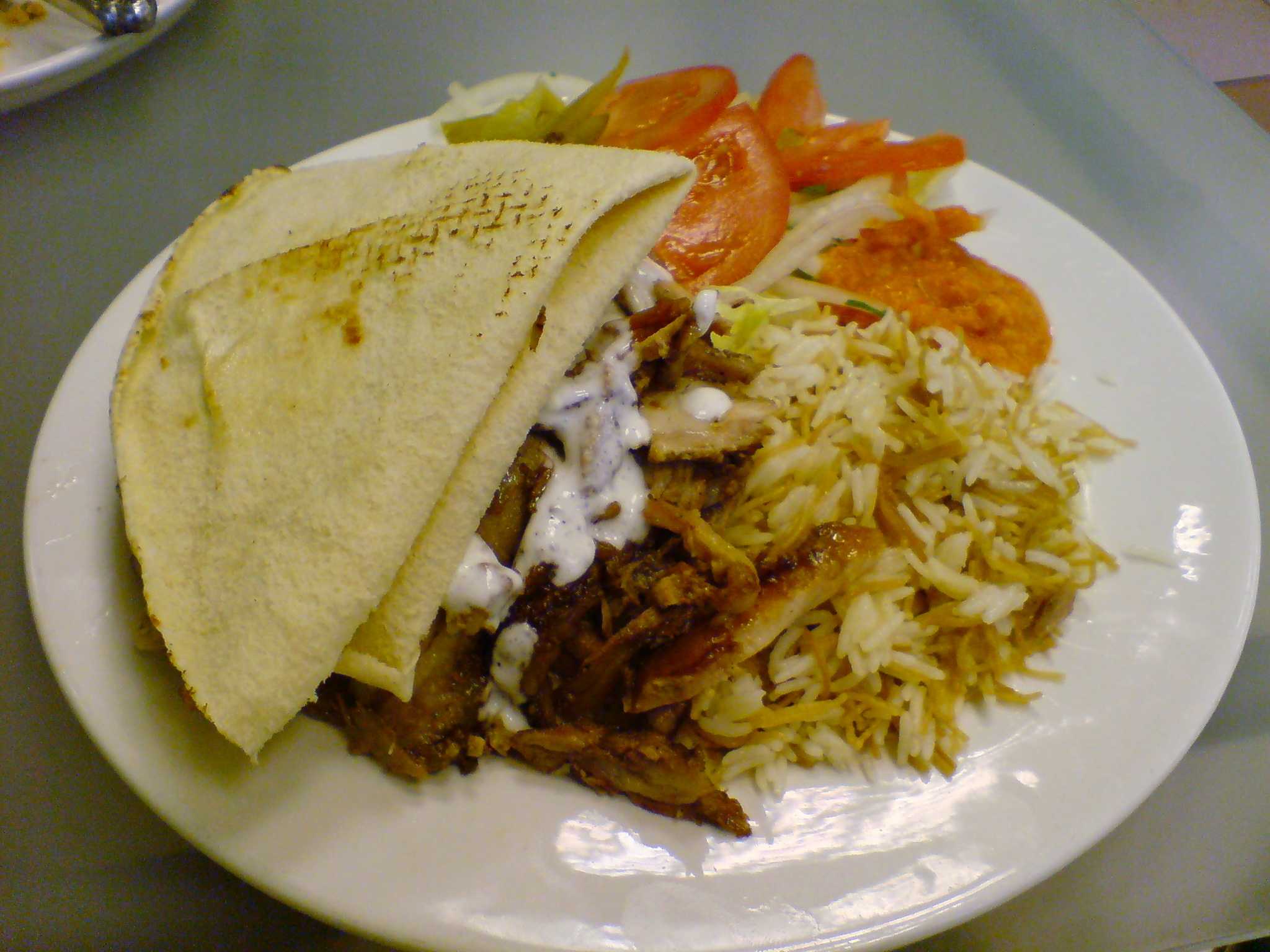 Taste London, Camberwell Church Street, London SE5. Taste London on the Randomness Guide to London.